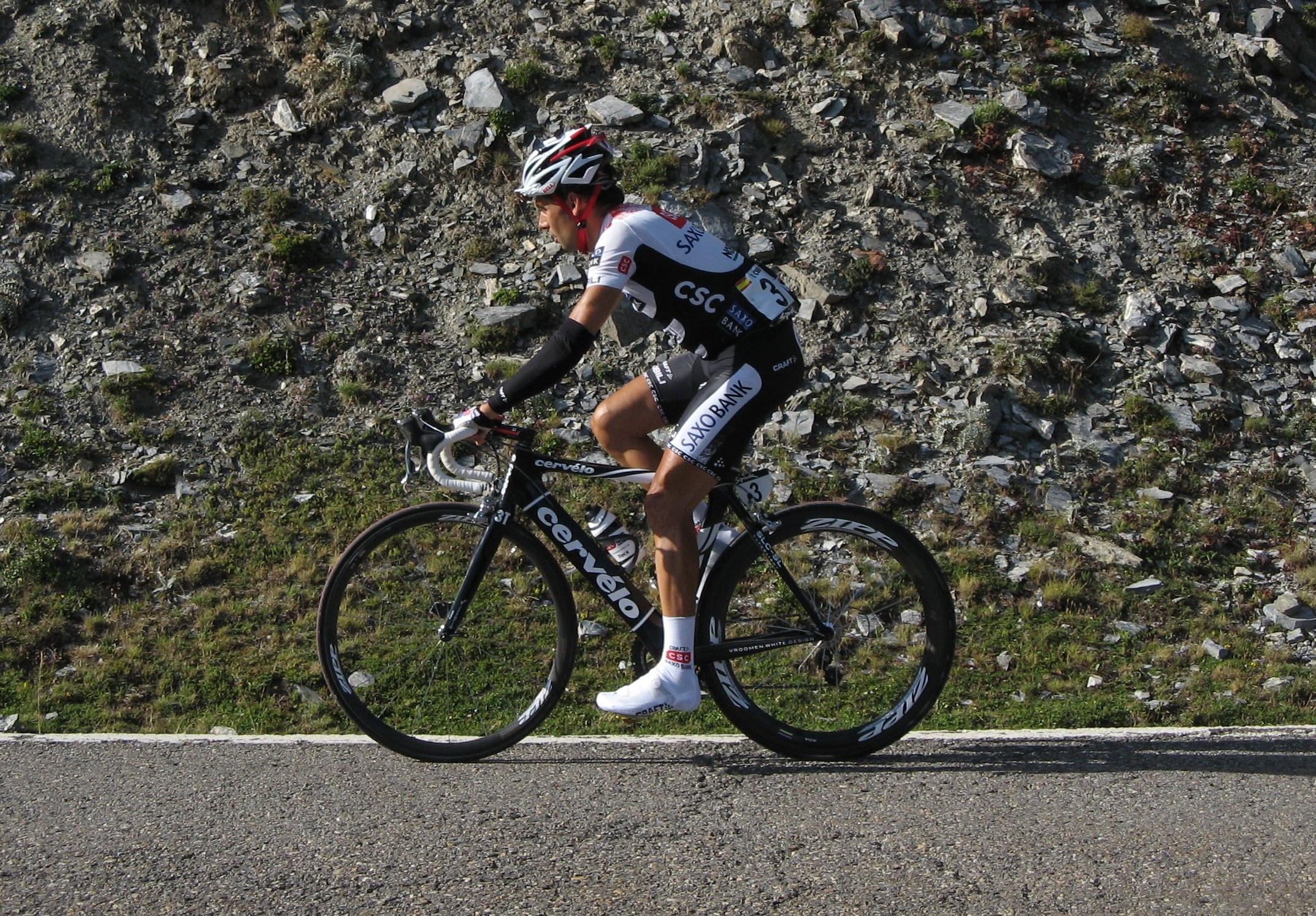 Íñigo Cuesta, 2008 Vuelta a España, 8th stage, Port de la Bonaigua, Spain.